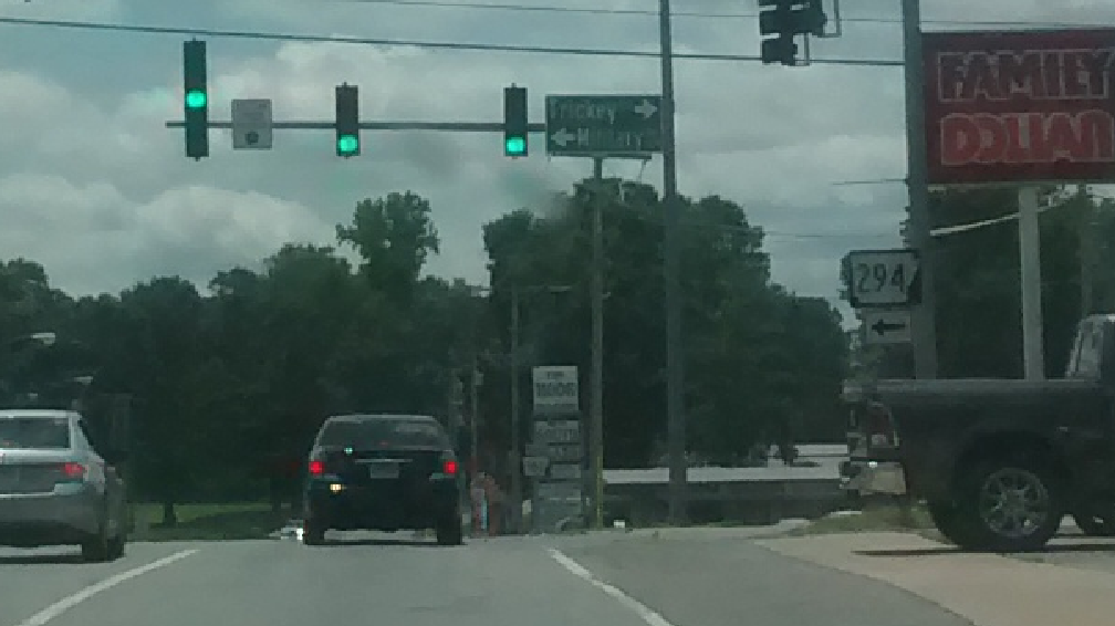 This photo was taken at the junction of AR-294 and AR-161 in Jacksonville, Arkansas.